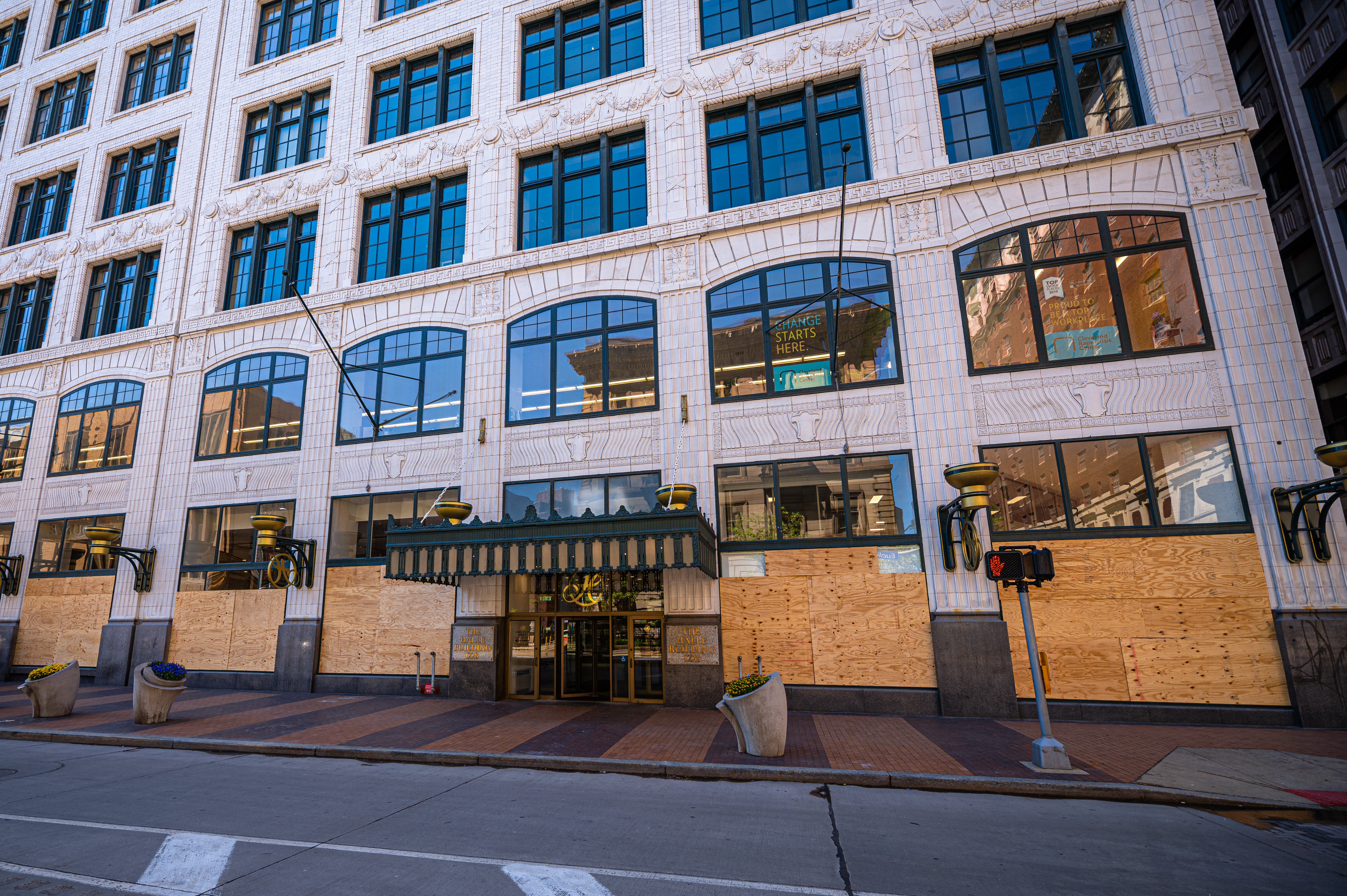 Plywood covers shattered windows at the Halle Building in Cleveland following George Floyd protests in the city.